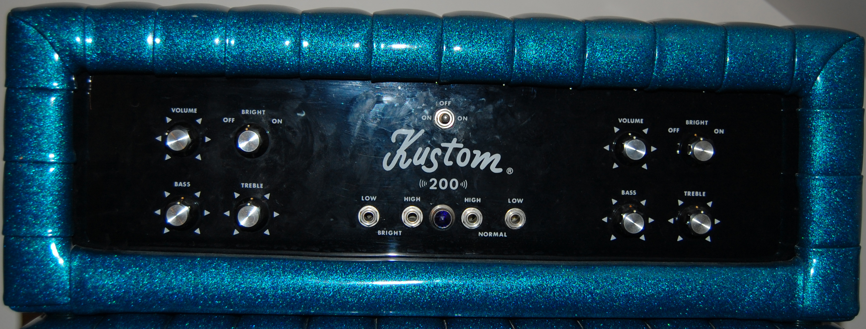 Kustom Amplification head (amplifier part)